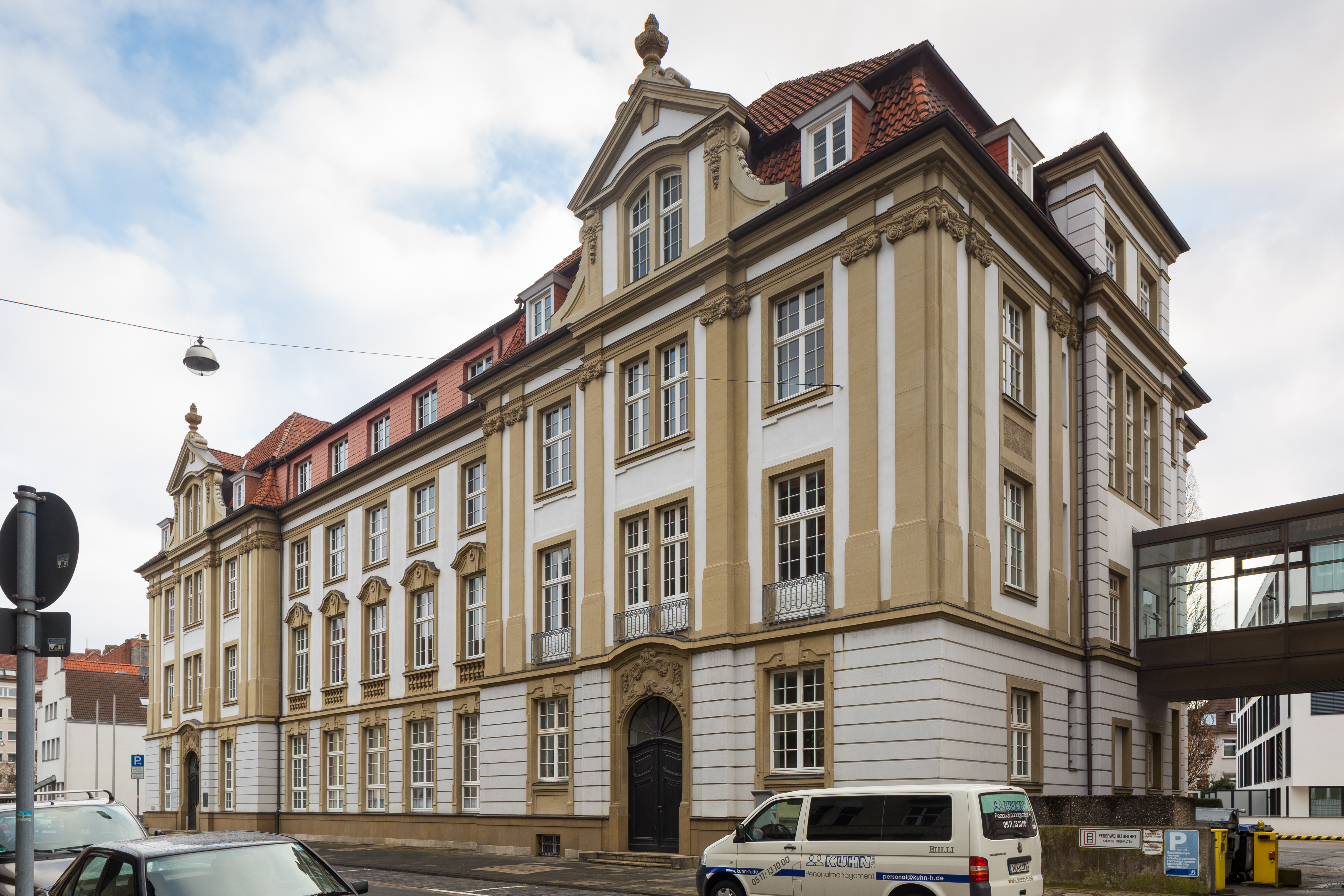 (Former?) Administrative district building located at Hoeltystrasse no. 17 in Suedstadt quarter of Hannover, Germany.